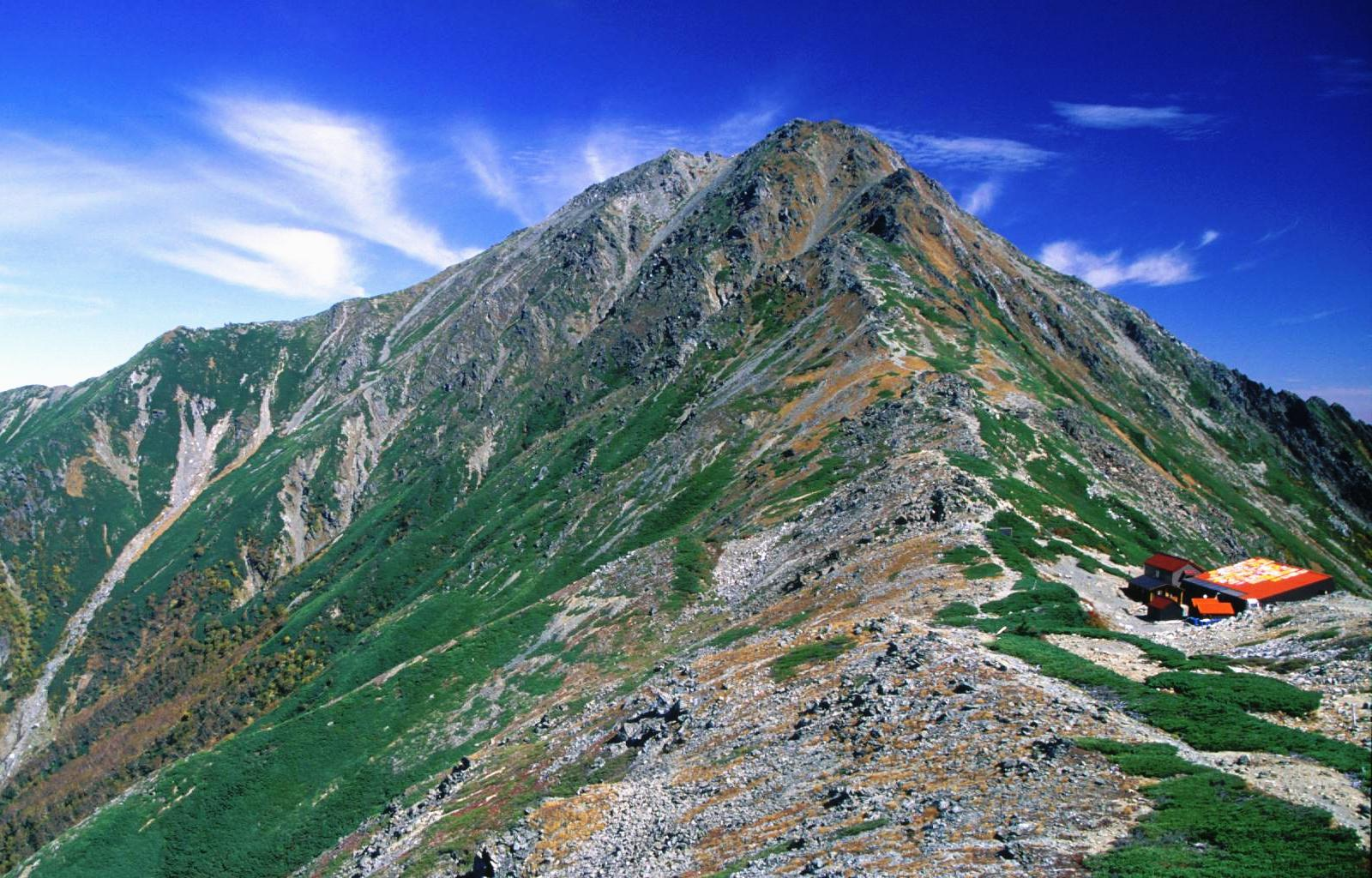 Mountain hut (Kitadake-sansō, with Futon on thr roof) and Mount Kita seen from Mount Nakashirane, in Akaishi Mountains, Japan.